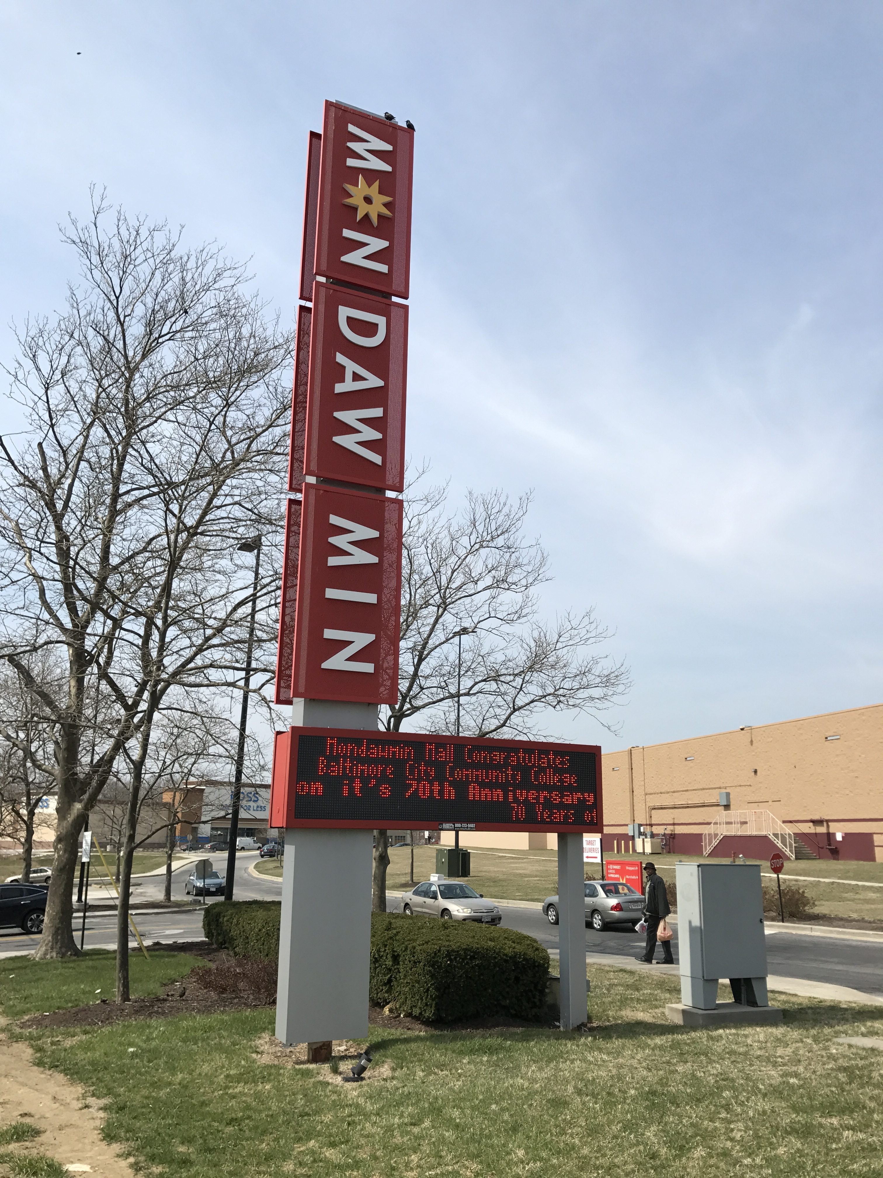 Photograph by Eli Pousson, 2017 March 24.